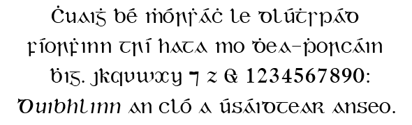 I made this image myself with my own font. Evertype 18:54, 24 August 2006 (UTC)